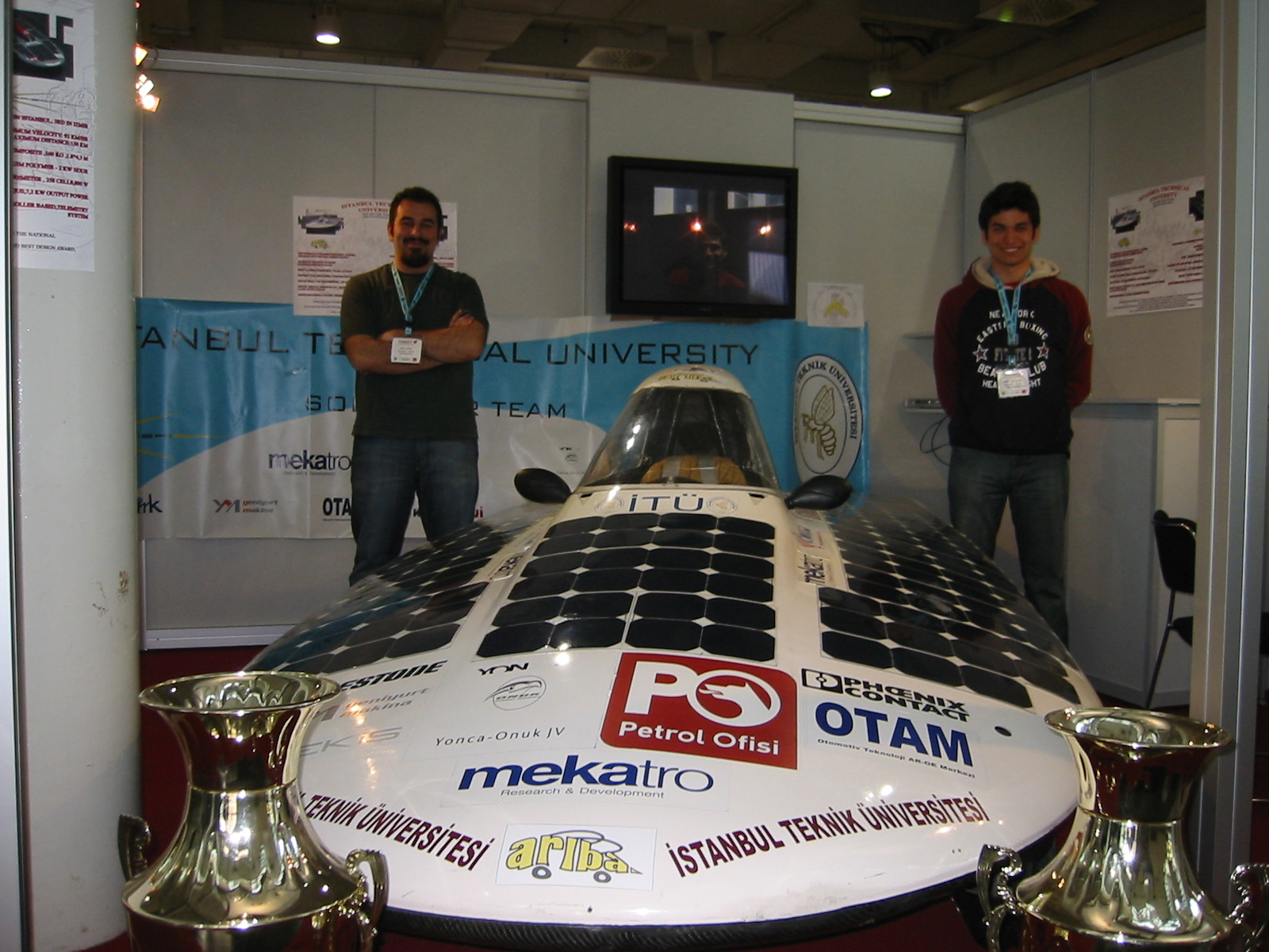 Istanbul Technical University/ İstanbul Teknik Üniversitesi-ARIBA solar car racing team